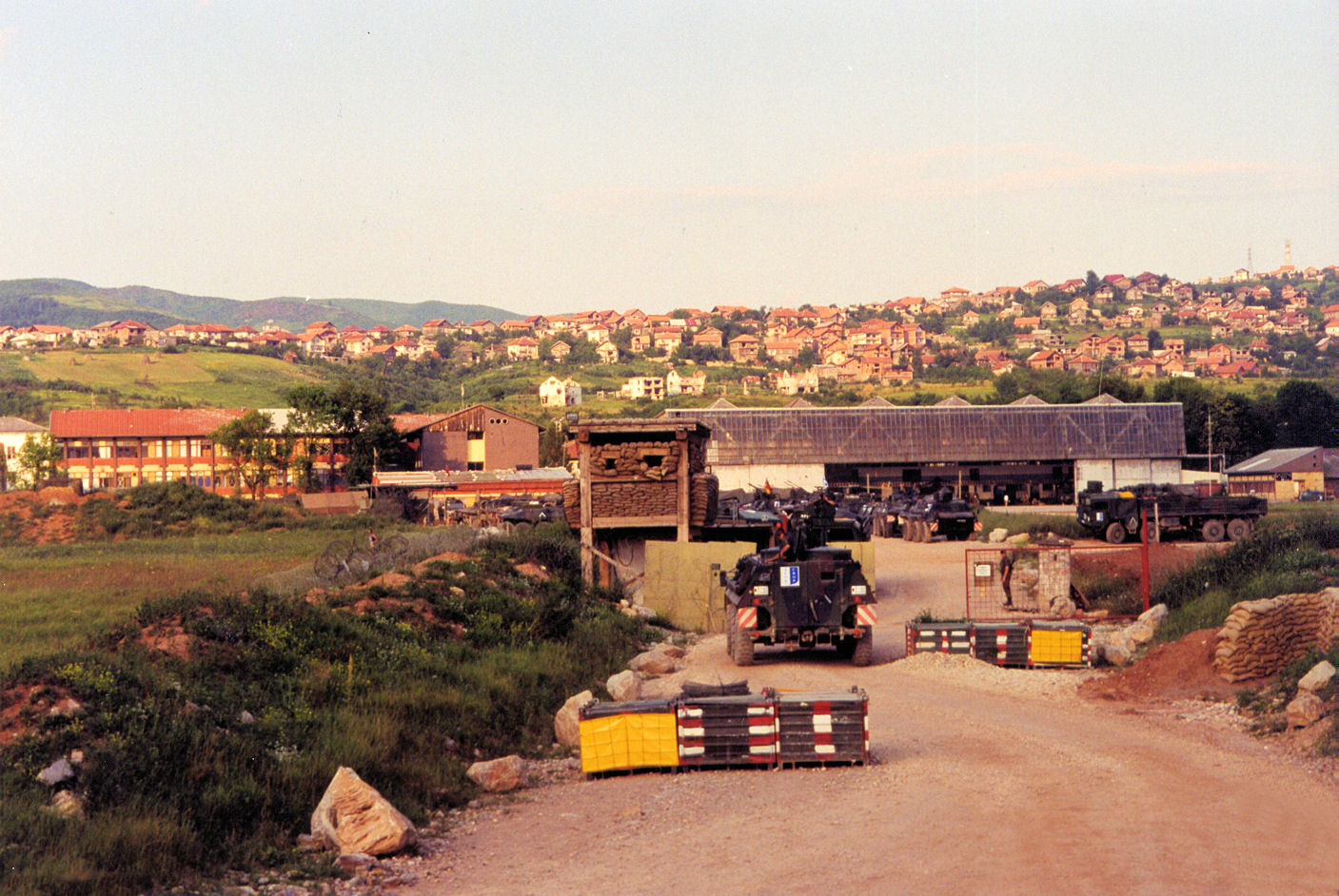 Rear gateway of SFOR-Camp Rajlovac near Sarajevo